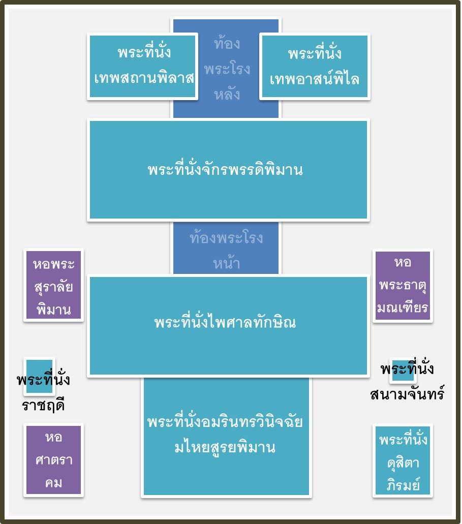 Map of Phramahamontien, Grand Palace, Bangkok, Thailand